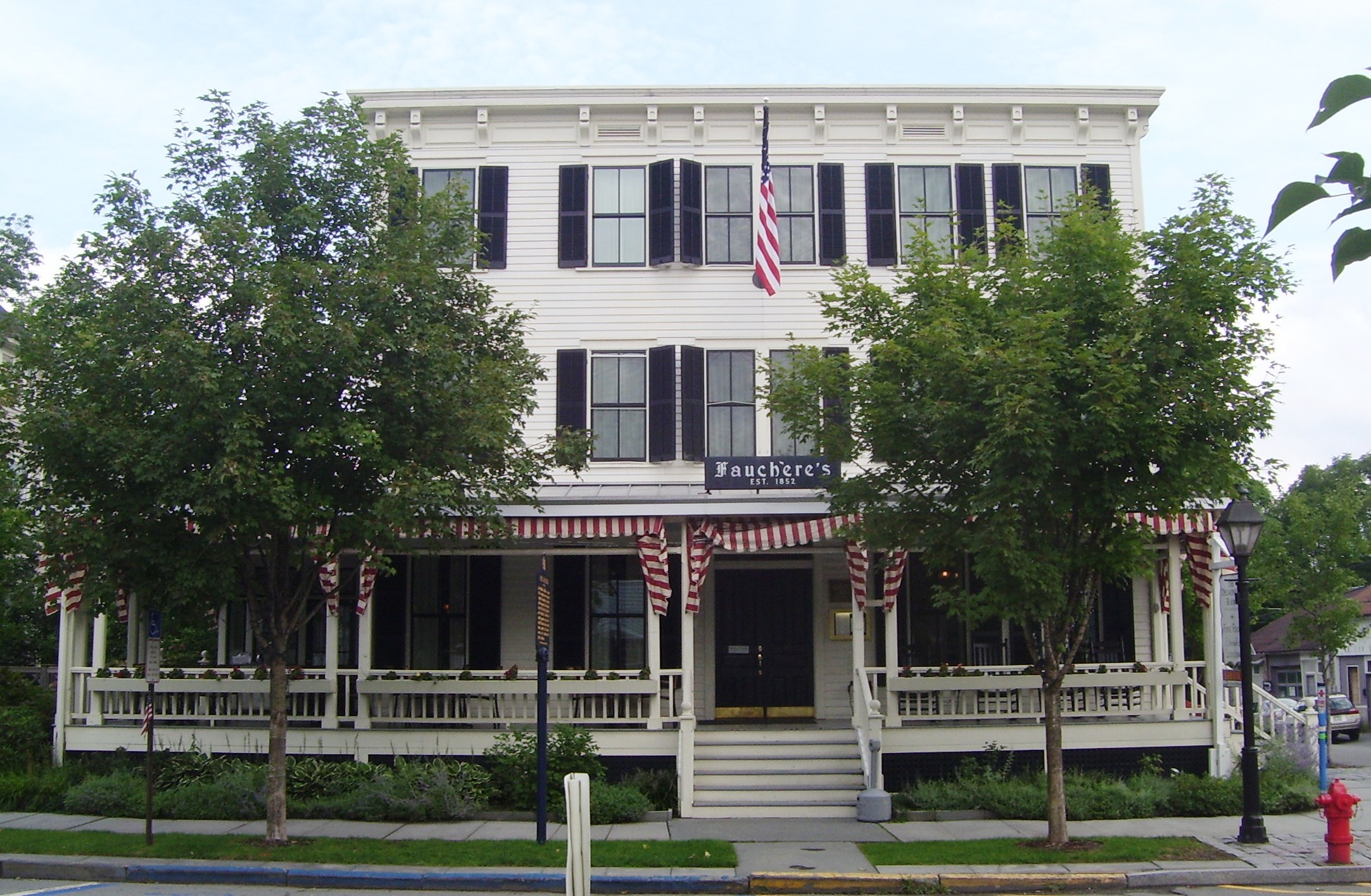 The Hotel Fauchere at 401 Broad Street in Milford, Pennsylvania was founded as a summer hotel in 1852, with its restuarant under the management of Louis Fauchere, who was the master chef of Delmonico's in New York City. It is located within the Milford Historic District. (Source: Historical marker)